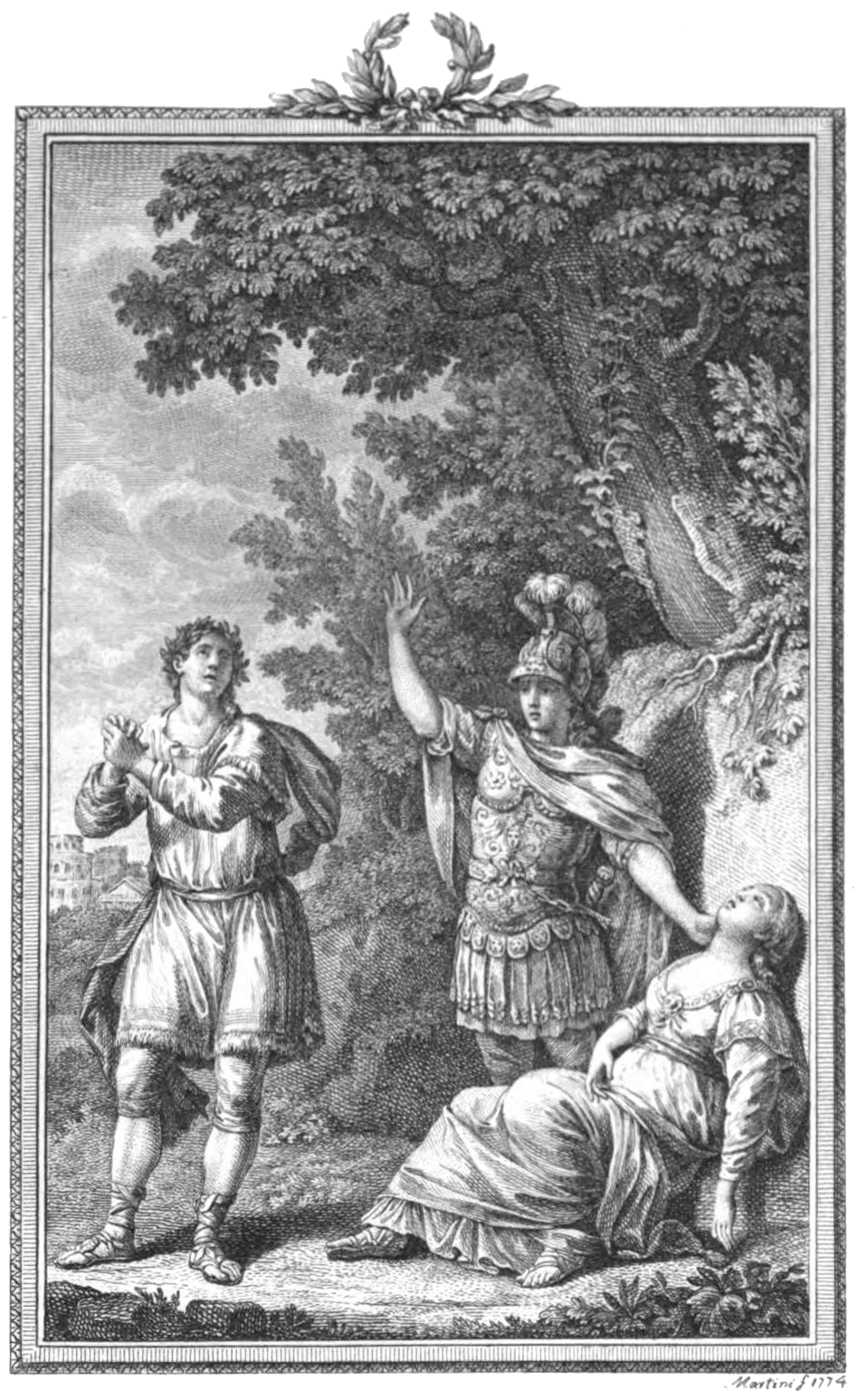 Metastasio - L’olimpiade, Atto II, Scena X. „Che dirà mai, Quando in se tornerà?“